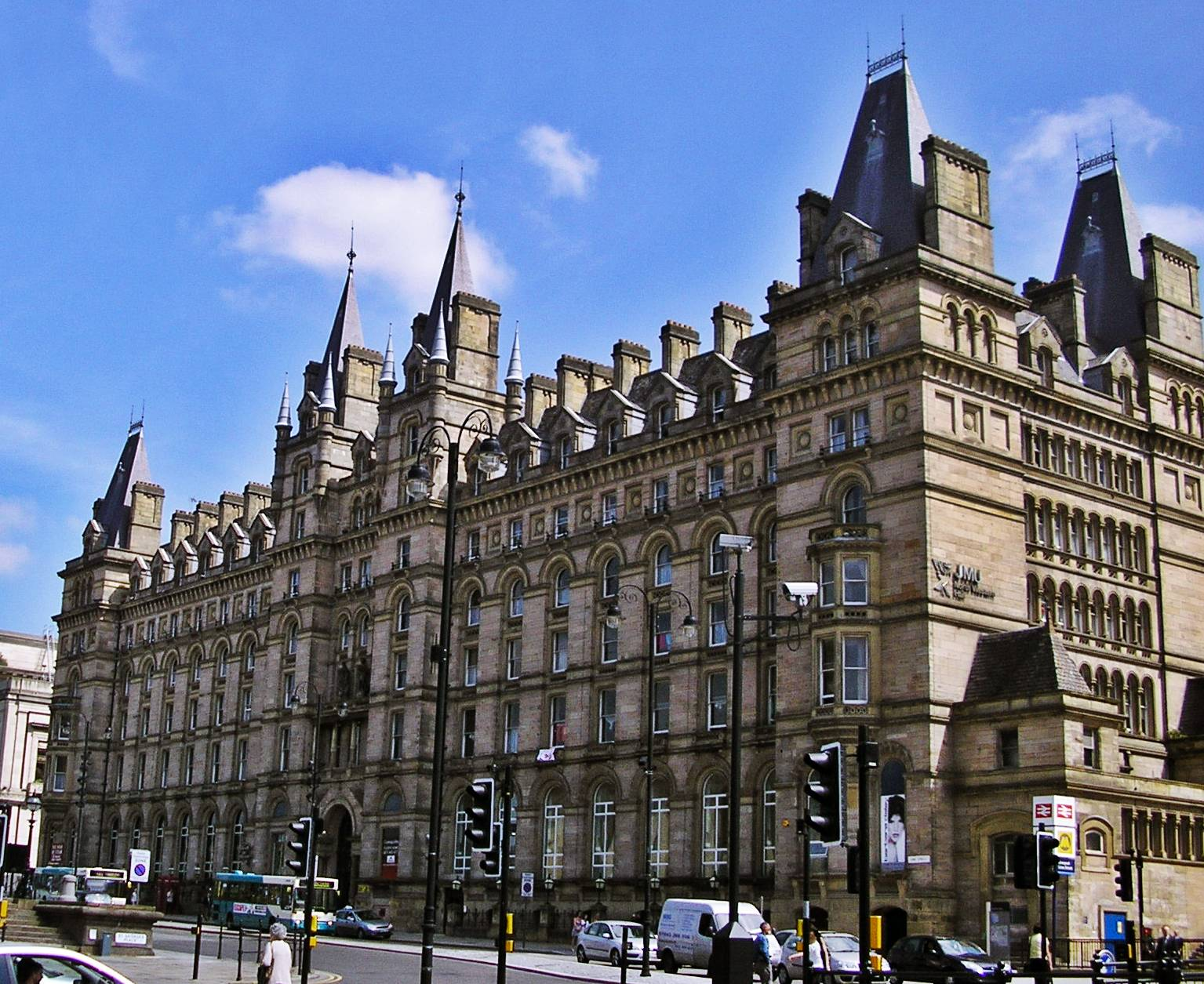 Liverpool John Moores University